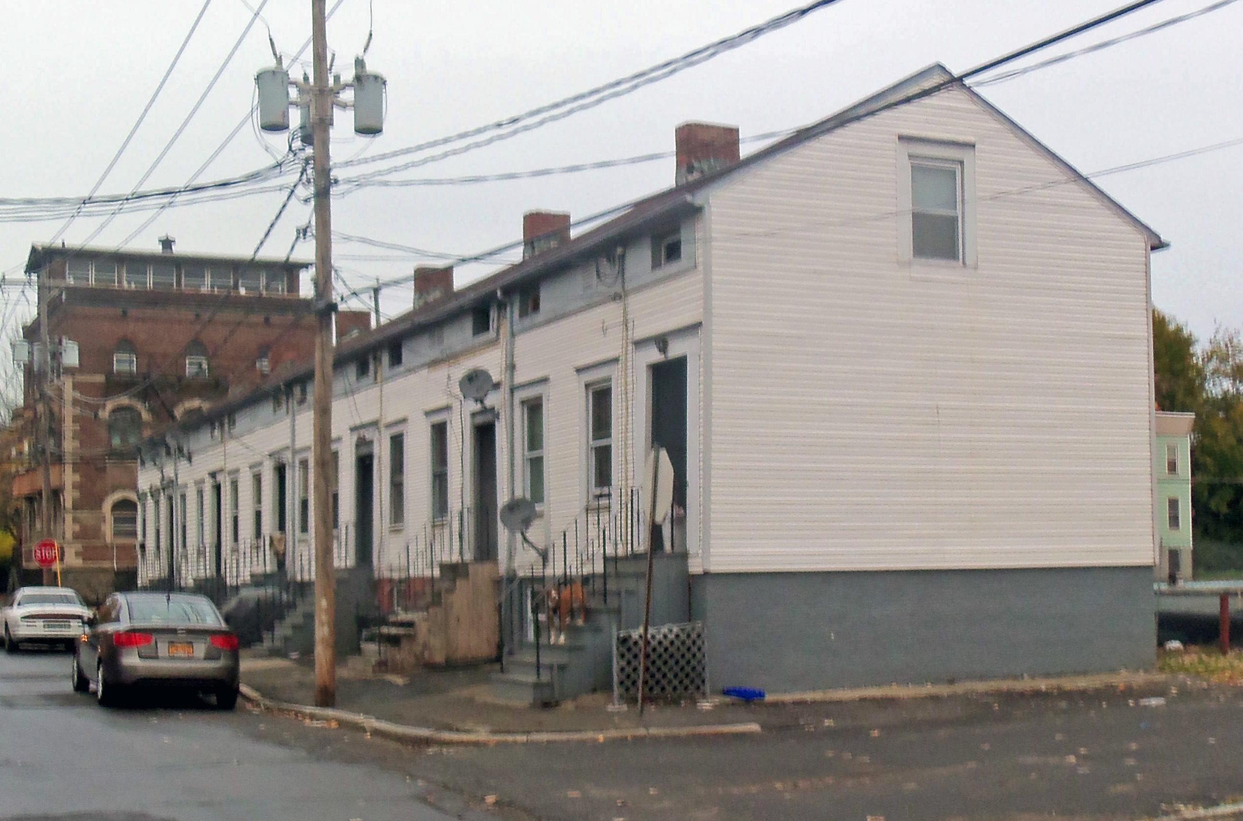 Foley Row, a contributing property to the South End–Groesbeckville Historic District, on Franklin Street in Albany, NY, USA